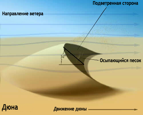 In physical geography, a dune is a hill of sand built by aeolian processes.